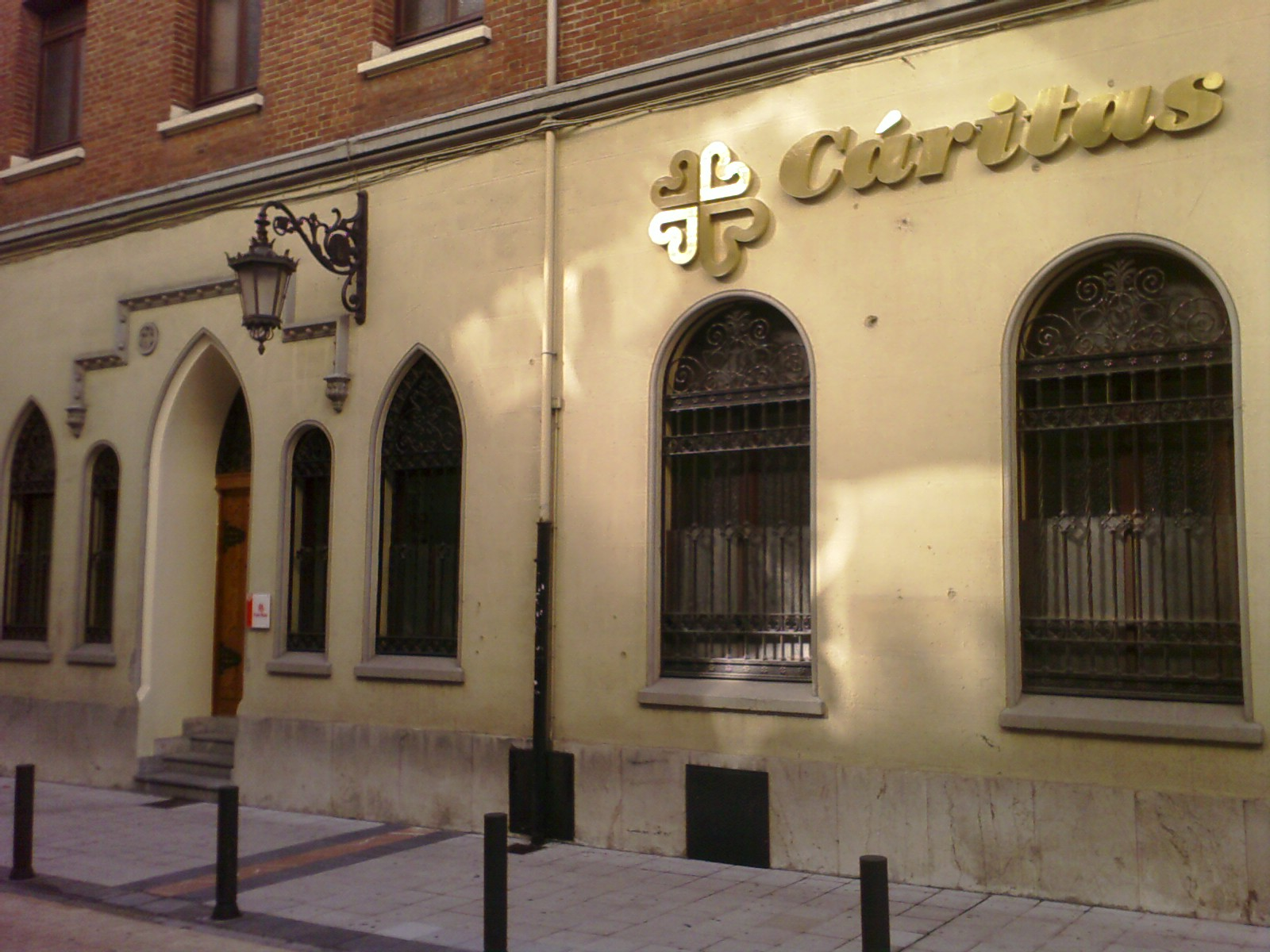 View of the site of Cáritas Diocesana de Oviedo